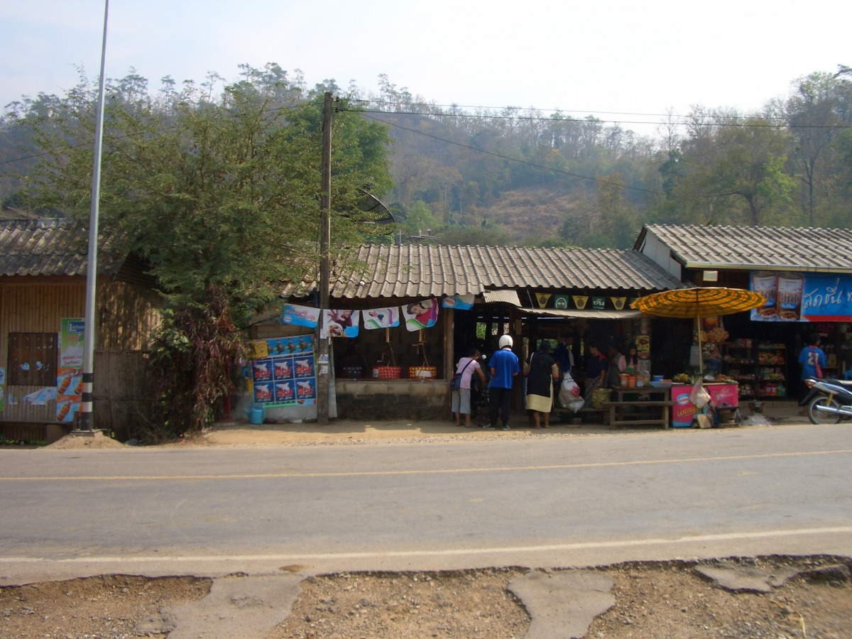 A "petrol station" and small shop on the road somewhere between Pai and Mae Hong Son, Mae Hong Son.